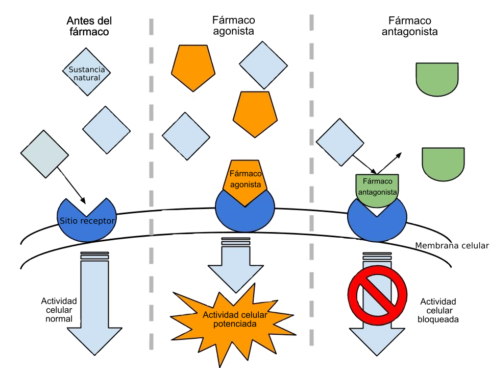 Agonist & Antagonist Drugs